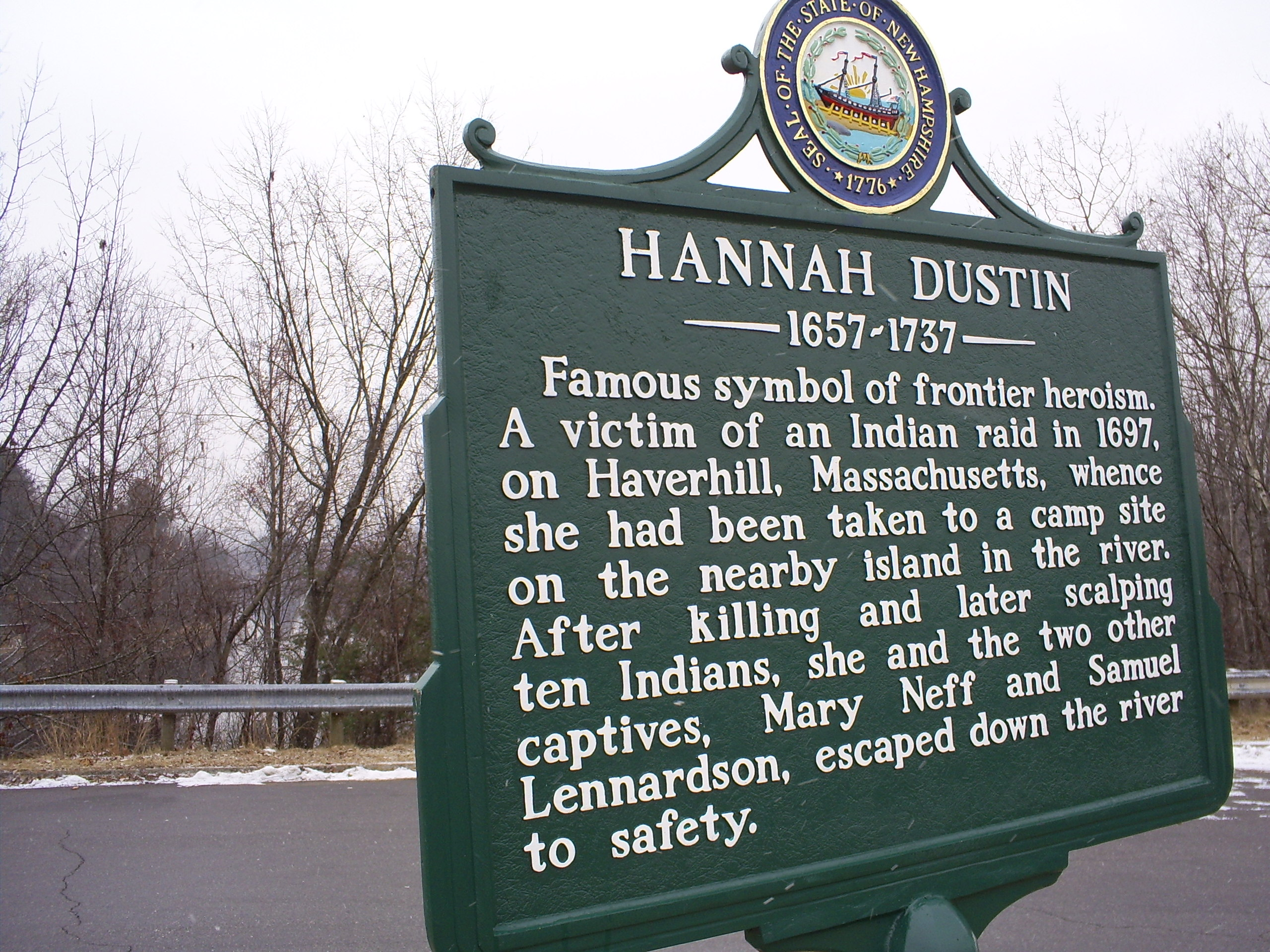 Photo by Craig Michaud. This Historical sign in in Boscawen, New Hampshire. Text: "Hannah Dustin 1657-1737 Famous symbol of frontier heroism. A victim of an Indian raid in 1697, on Haverhill, Massachusetts, whence she had been taken to a camp site on the nearby island in the river. After killing and later scalping ten Indians, she and the two other captives, Mary Neff and Samuel Lennardson, escaped down the river to safety."